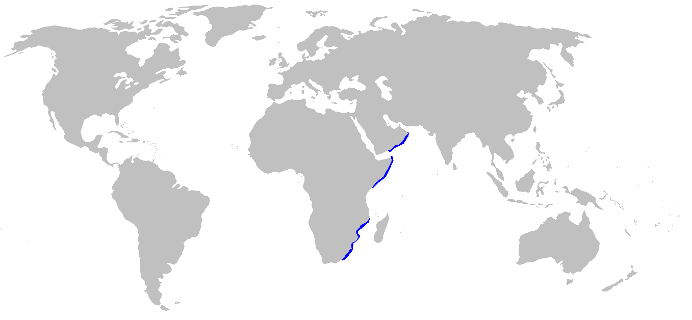 Distribution map for Heterodontus ramalheira